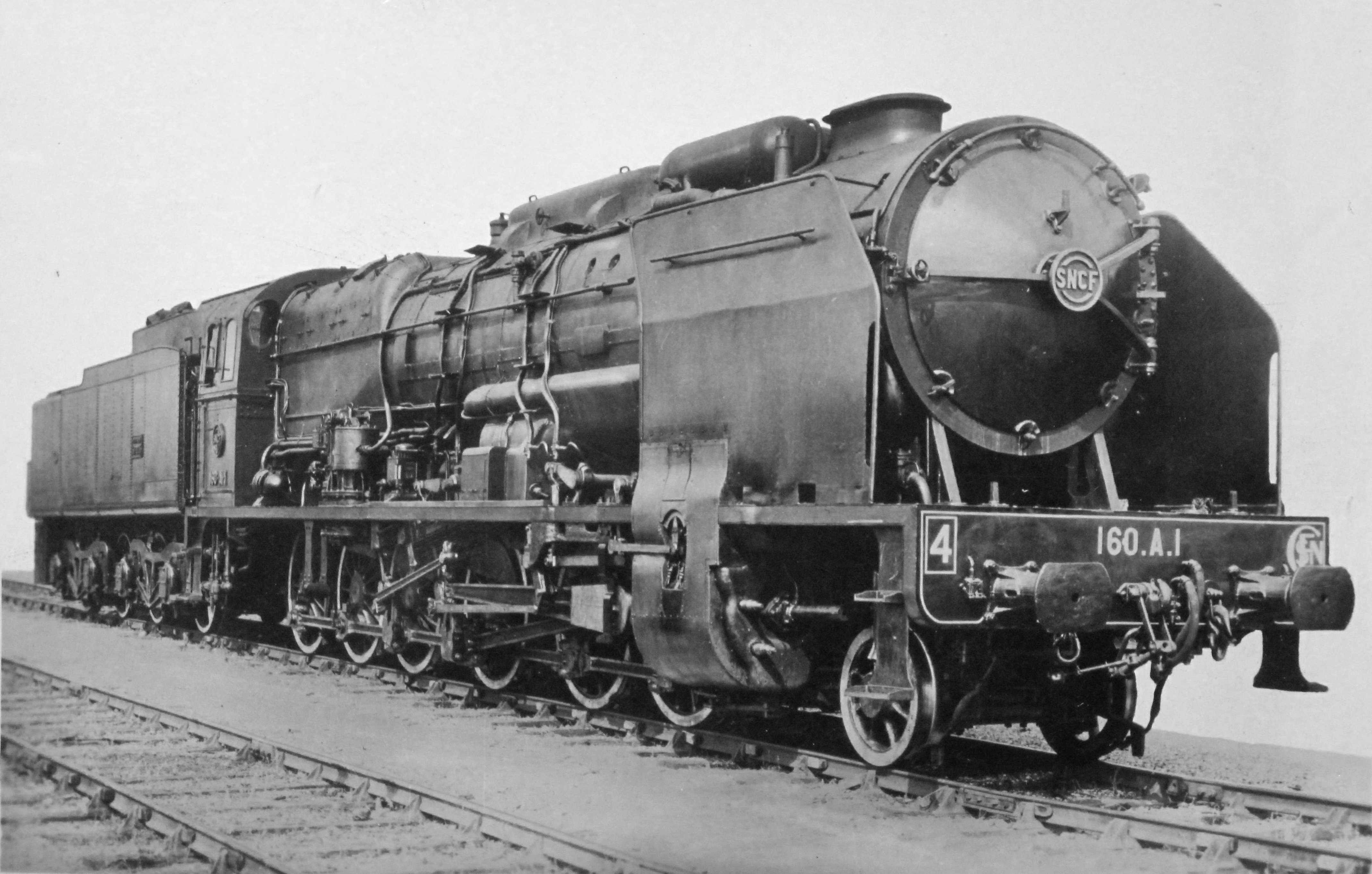 Locomotive type 2-12-0 of SNCF